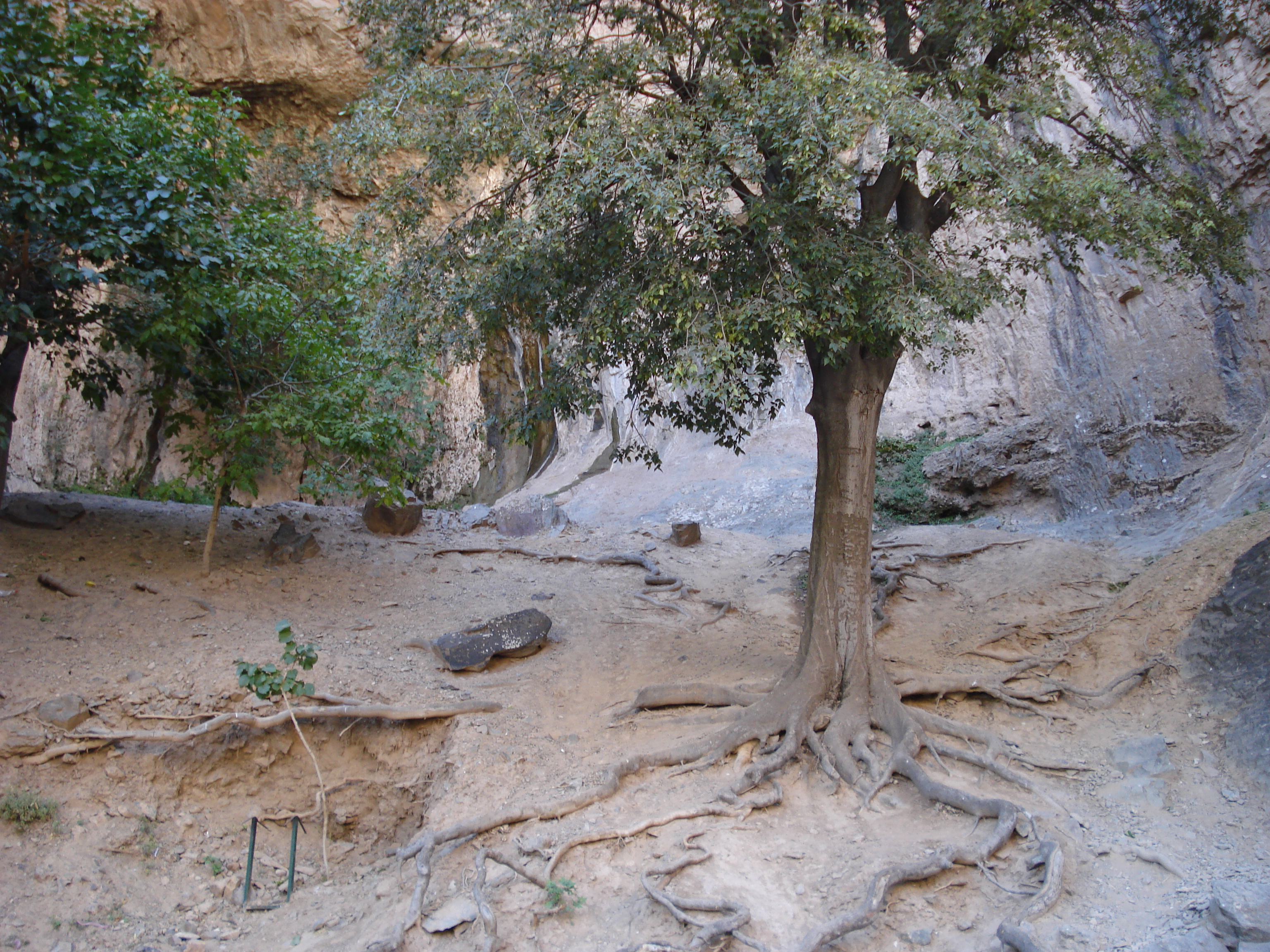 Tagoug - taag holy tree in ancient time. Entrance of Darb e Soufeh Zibad.